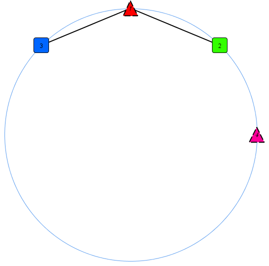 Applying a visualization algorithm.